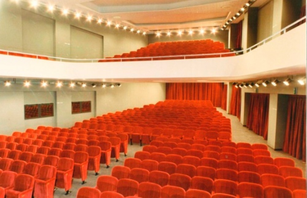 Teatro Duse, Genova.